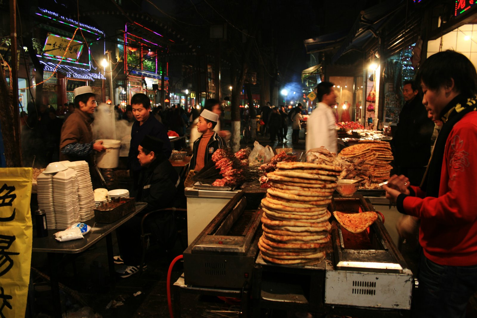 Muslim Quarter Xi'an China, a few people in the evening